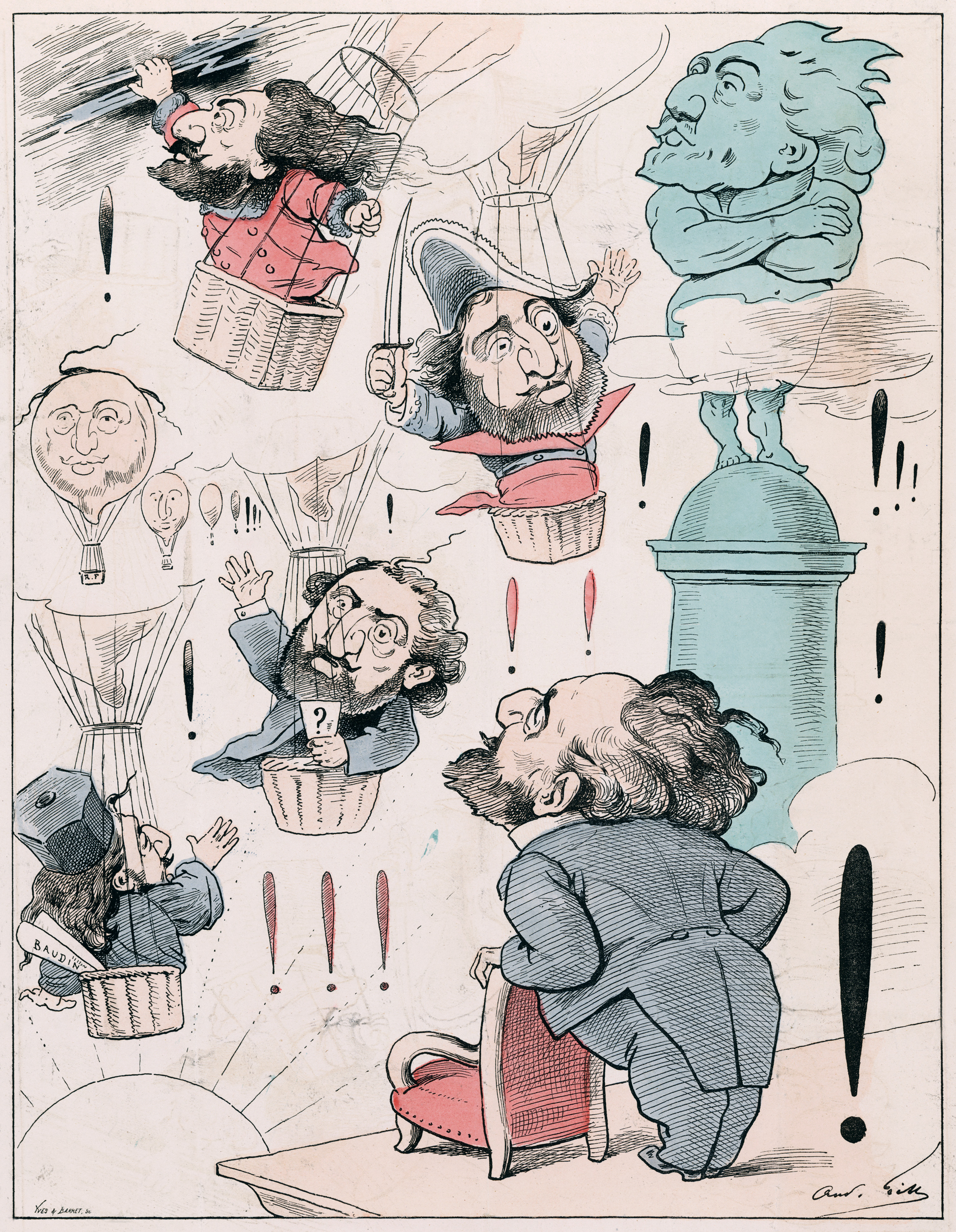 French caricature of Léon Gambetta, French republican statesman, leaning on the back of a chair and looking up at vignettes of himself. He escaped the Siege of Paris in the balloon, "L'Armand Barbes", October 7, 1870.